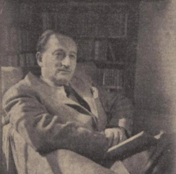 Paul Tabori (1908-1974) was a Hungarian author, novelist, journalist and psychical researcher.